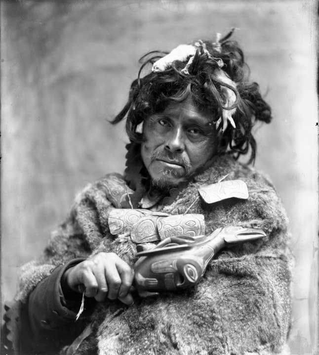 Tlingit Shaman, ca. 1900. Portrait of man wearing fur cape and carved amulet necklace, holding raven rattle; [George Jim, Sr., of Angoon (1901-1997) identified this man as his paternal grandfather, Berner’s Bay Jim (Aanxudaas, Dl’oogudzees), of the Wooshkeetaan clan of Toos’ Hít (Shark House) of the Aak’w kwaan. His wife was L’ooknax.ádi and her name was Káaxáxweit; they were the parents of Swanson Harbor Jim (Géek’i), George Jim’s father]